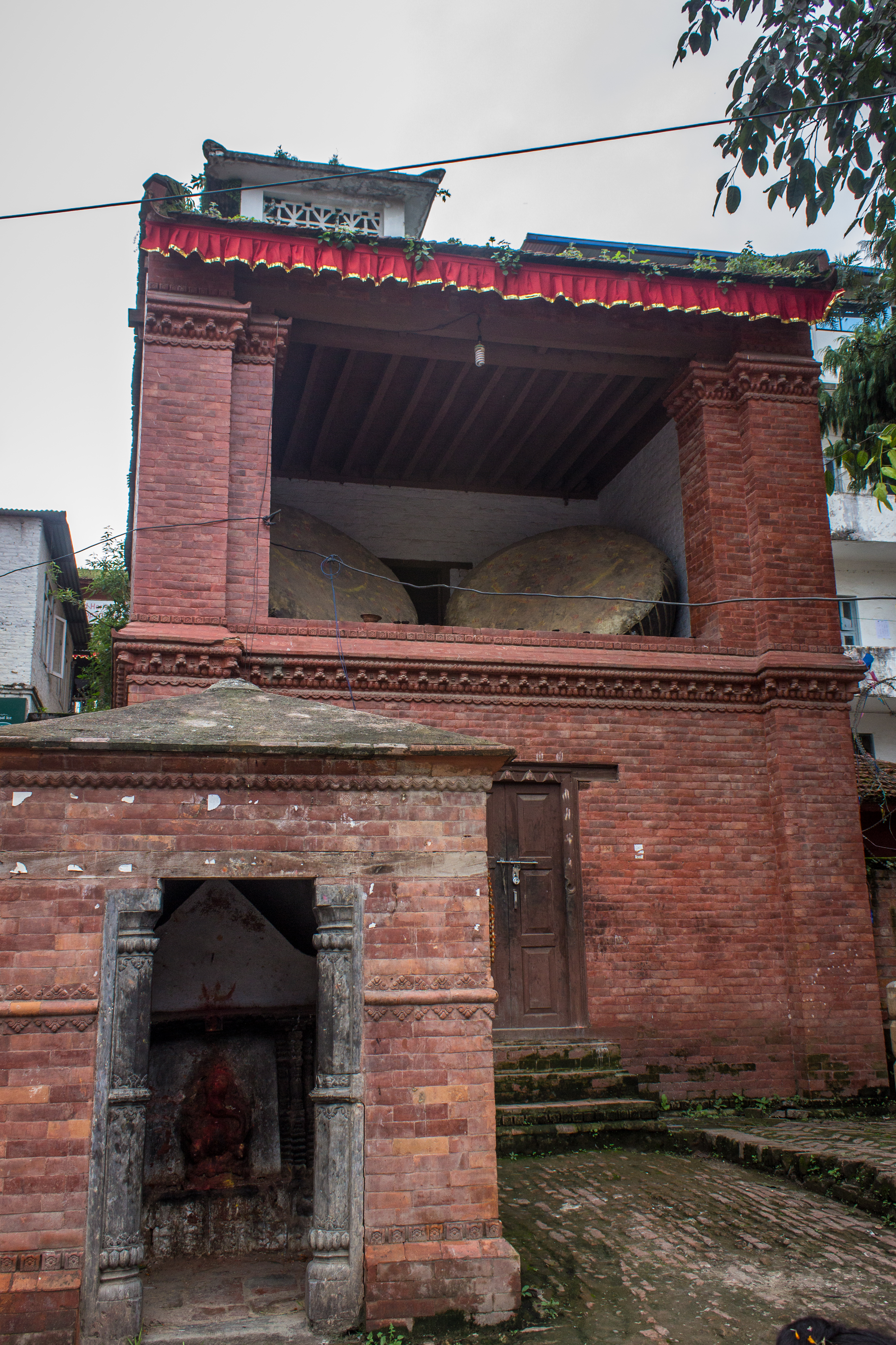 This is a photo presenting the house of Nagara( a special instrument) around the arena of Basantapur Durbar Square.